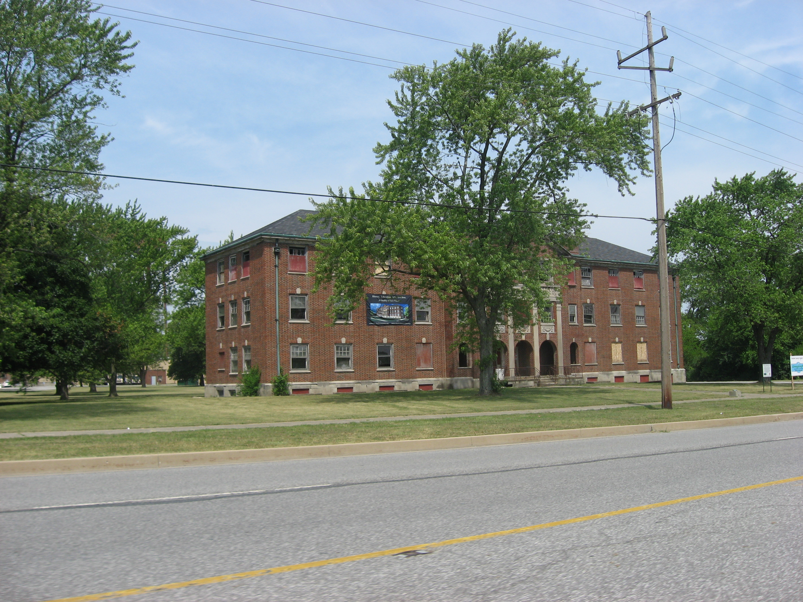 Front and southern side of the Lake County Sanatorium Nurses Home, located at 2323 N. Main Street (State Road 55) in Crown Point, Indiana, United States. Built in 1930, it is listed on the National Register of Historic Places.